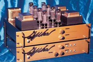 Bob Gjika with his Gold Amp in 1988